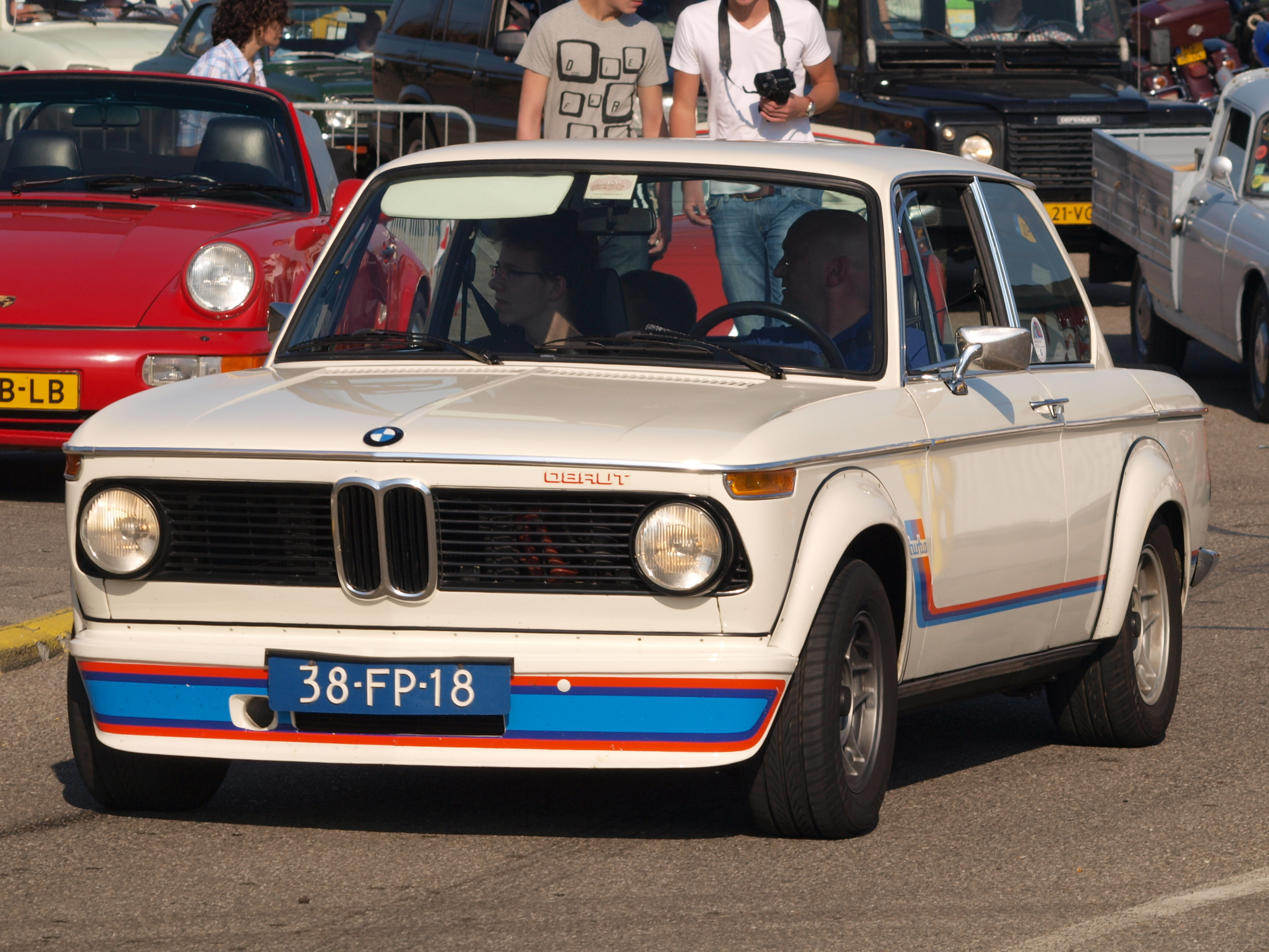 Photographed at the Nationaal Oldtimer Festival Zandvoort 2009, The Netherlands. OLYMPUS DIGITAL CAMERA